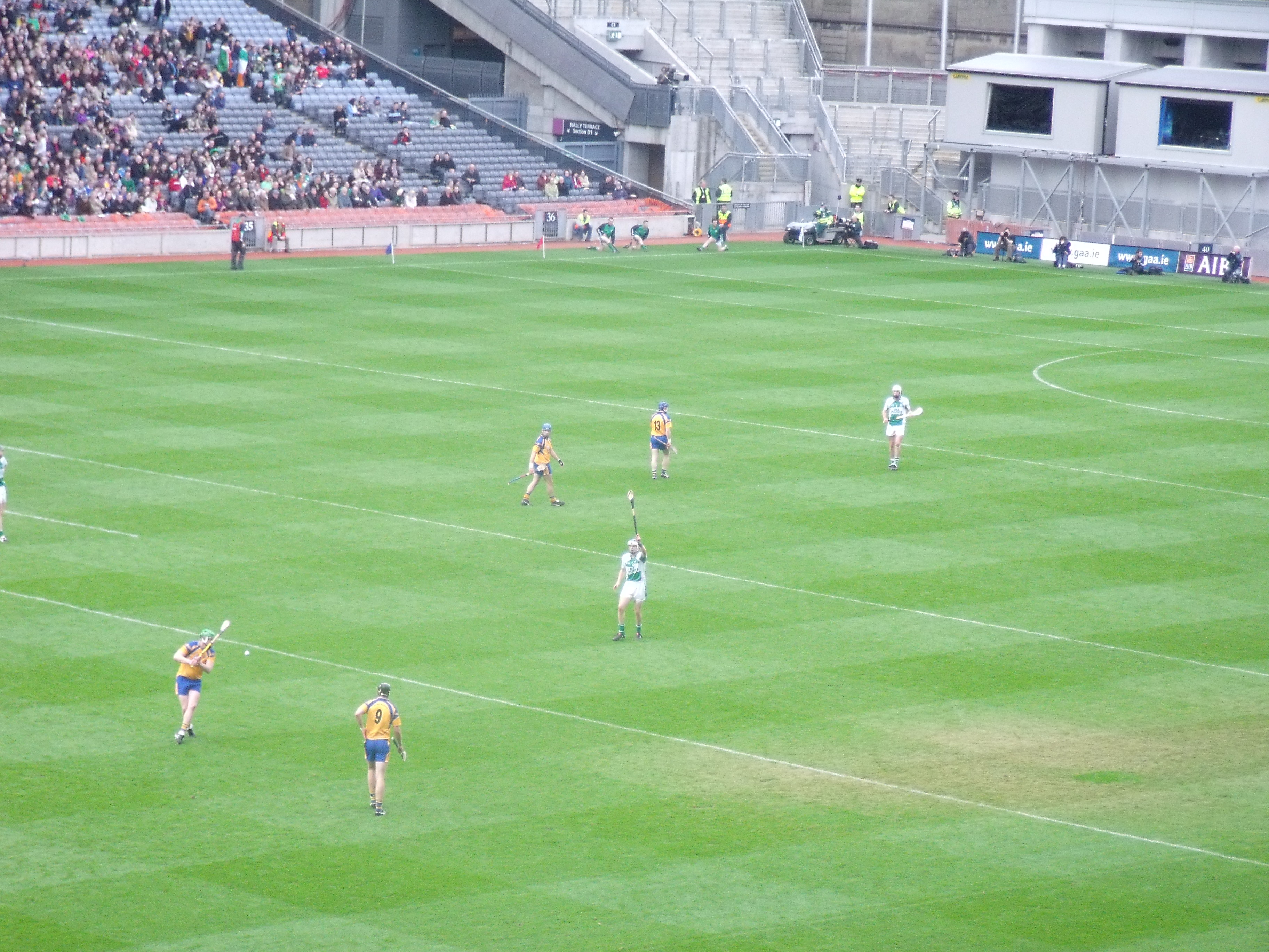 Croke Park St Patrick's Day 2010